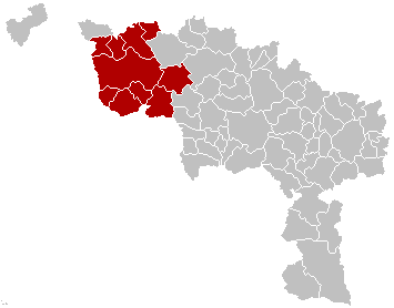 Map of Tournai District in province of Hainaut, Belgium.